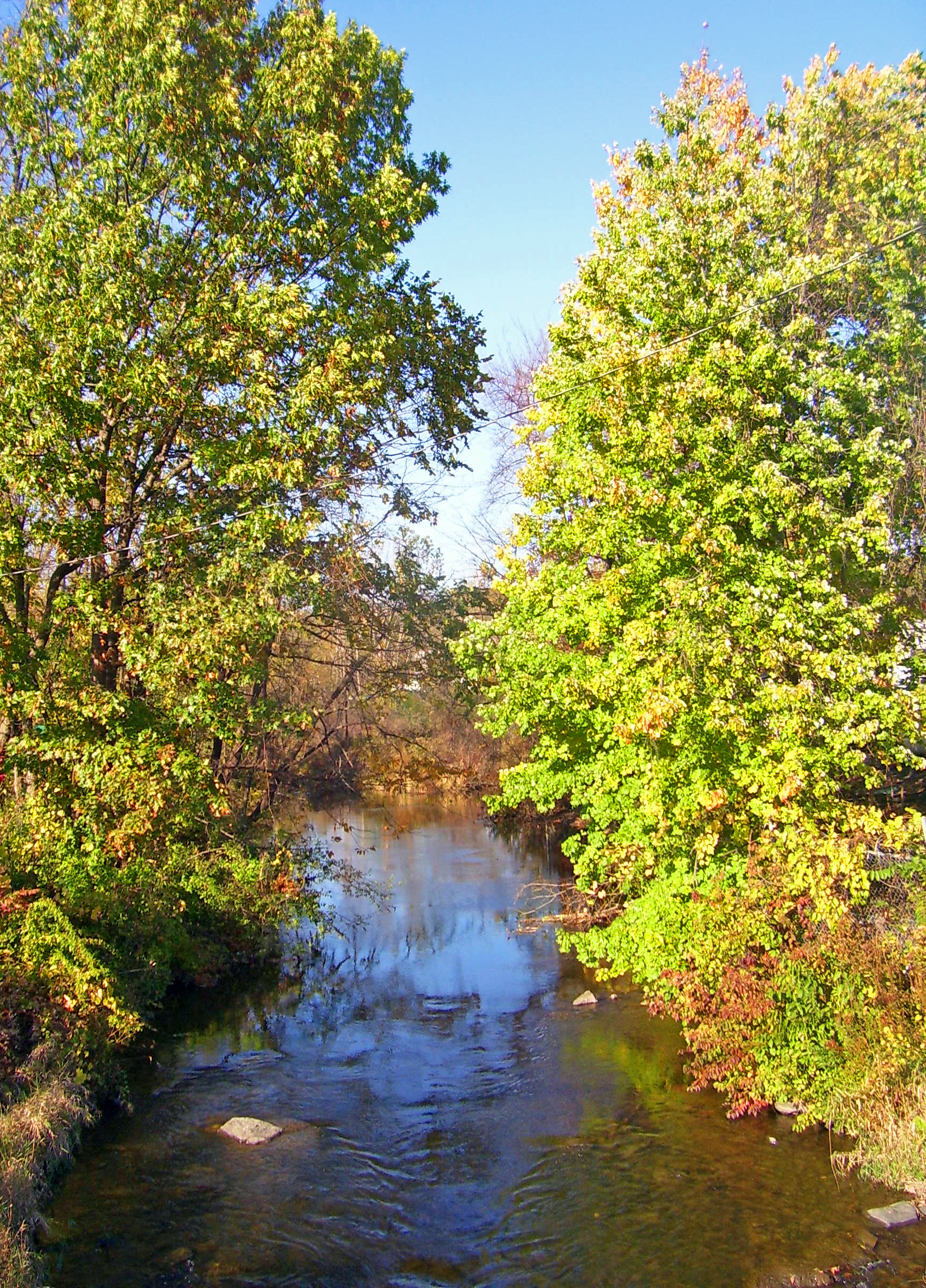 Quassaick Creek from NY 17K near the Newburgh, NY city line